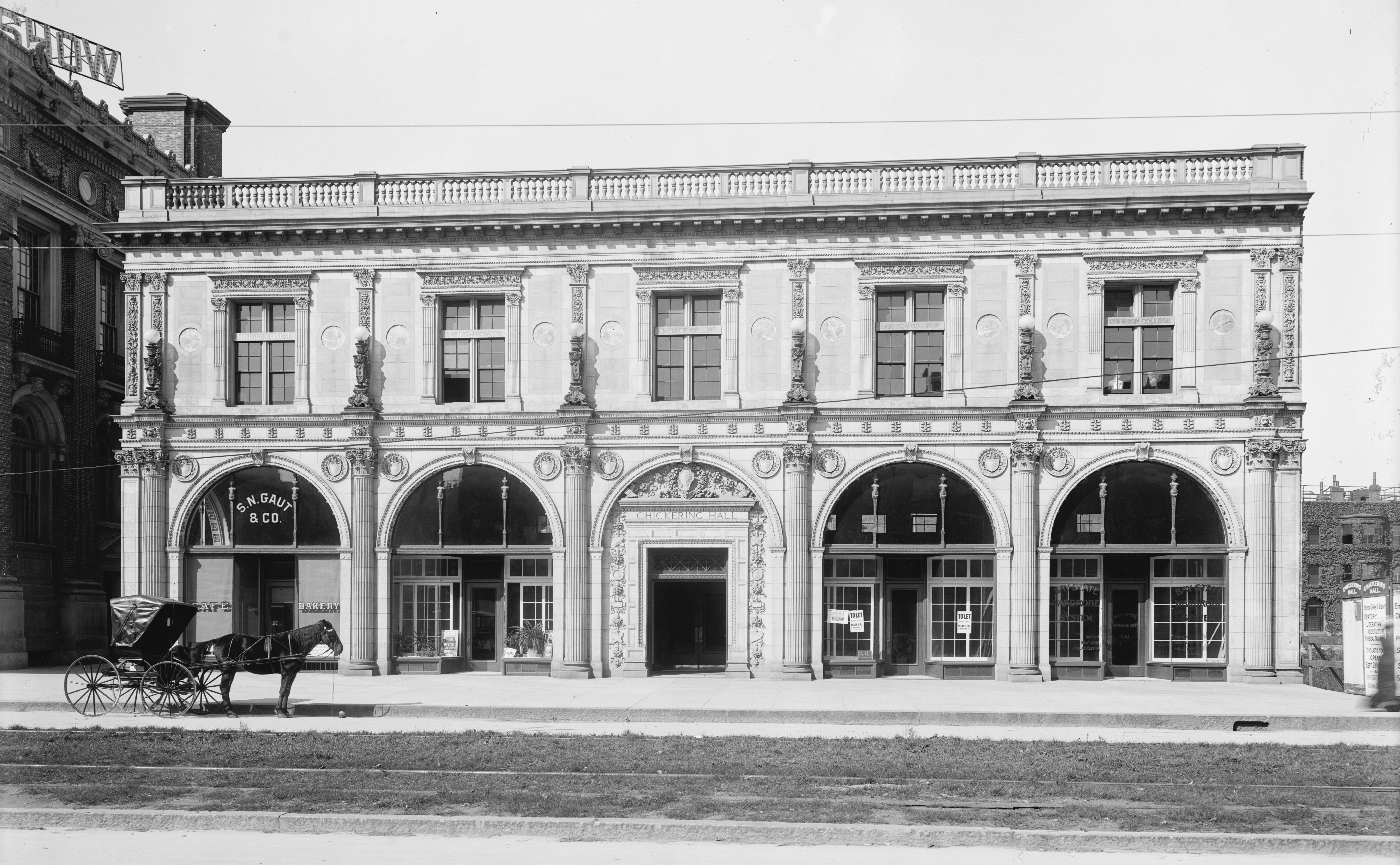 Title: Chickering Hall, Boston, Mass. Related Names: Detroit Publishing Co. , publisher Date Created/Published: [between 1900 and 1906] Repository: Library of Congress Prints and Photographs Division Washington, D.C. 20540 USA